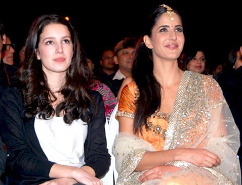 Katrina and Isabel Kaif at Stardust Awards 2011